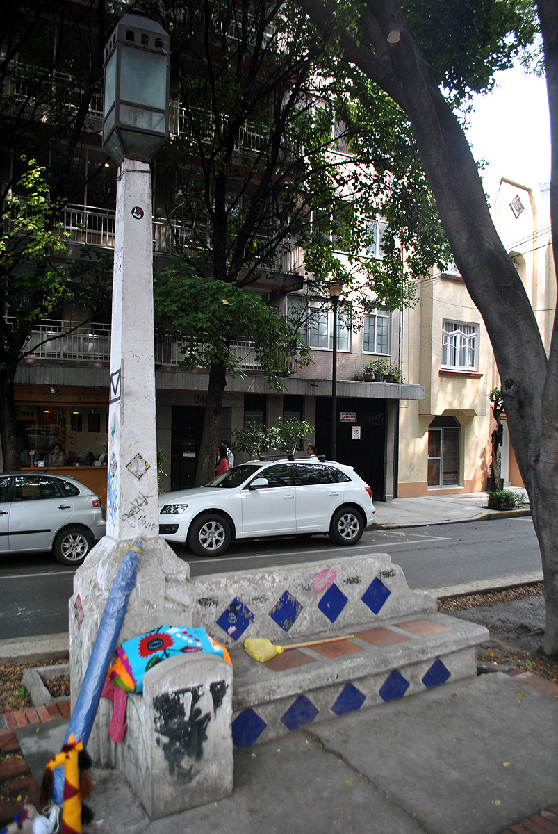 Avenida Amsterdam is located in Colonia Condesa in Cuauhtemoc Mexico City. Its particular elliptical shape comprising at Parque Mexico.